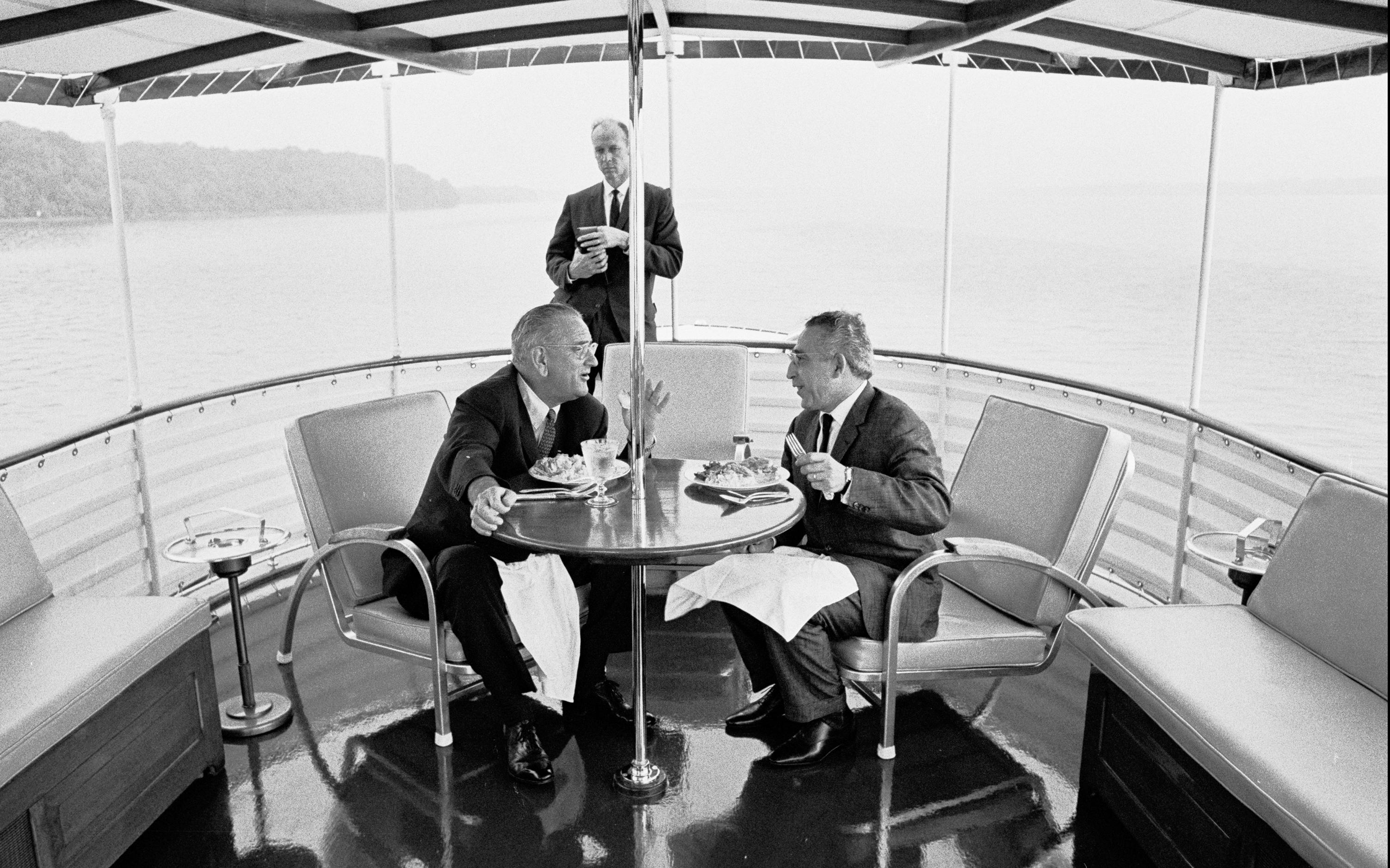 USS Sequoia